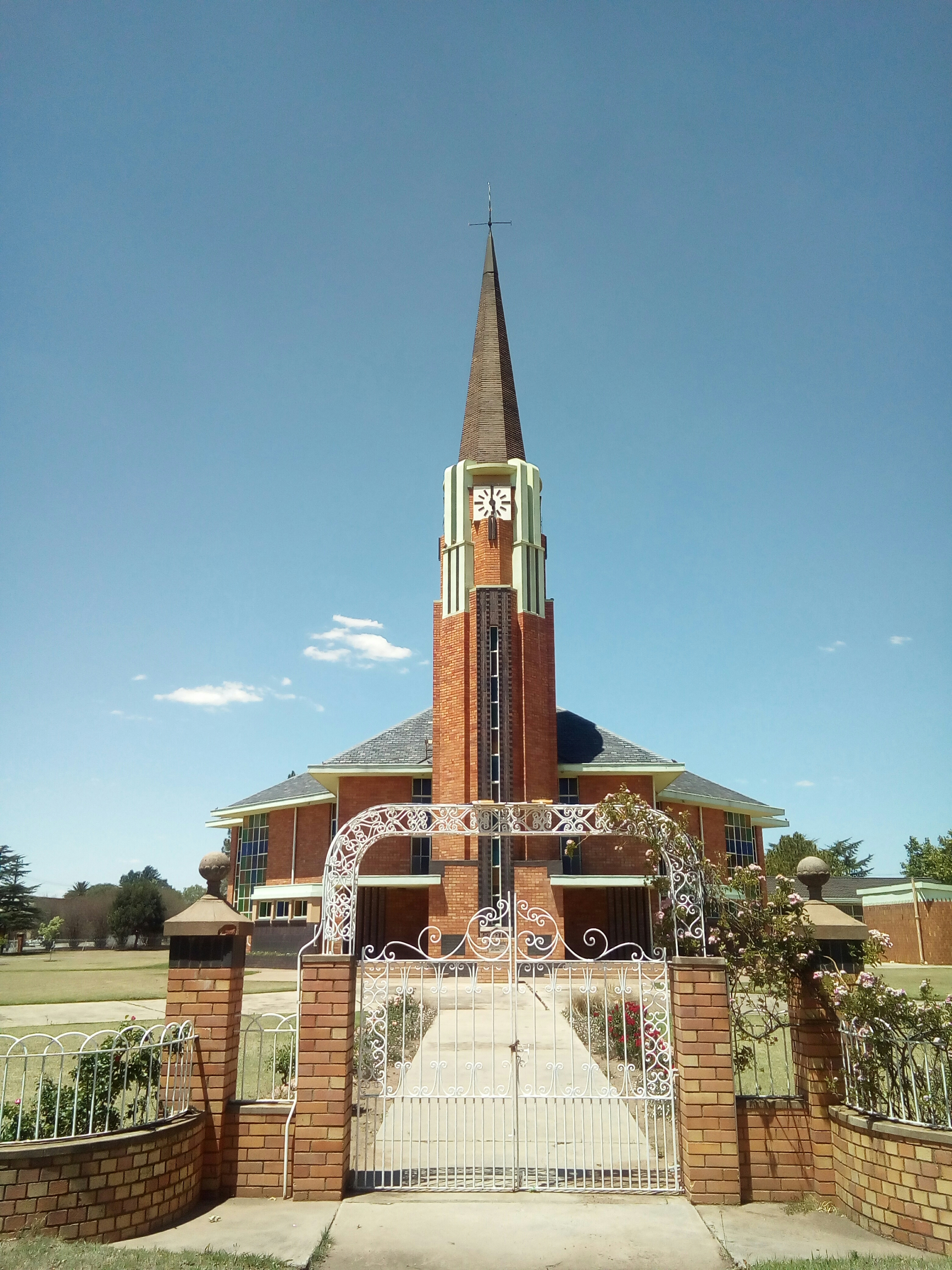 Photo of the front of the Dutch Reformed Church in Petrus Steyn.